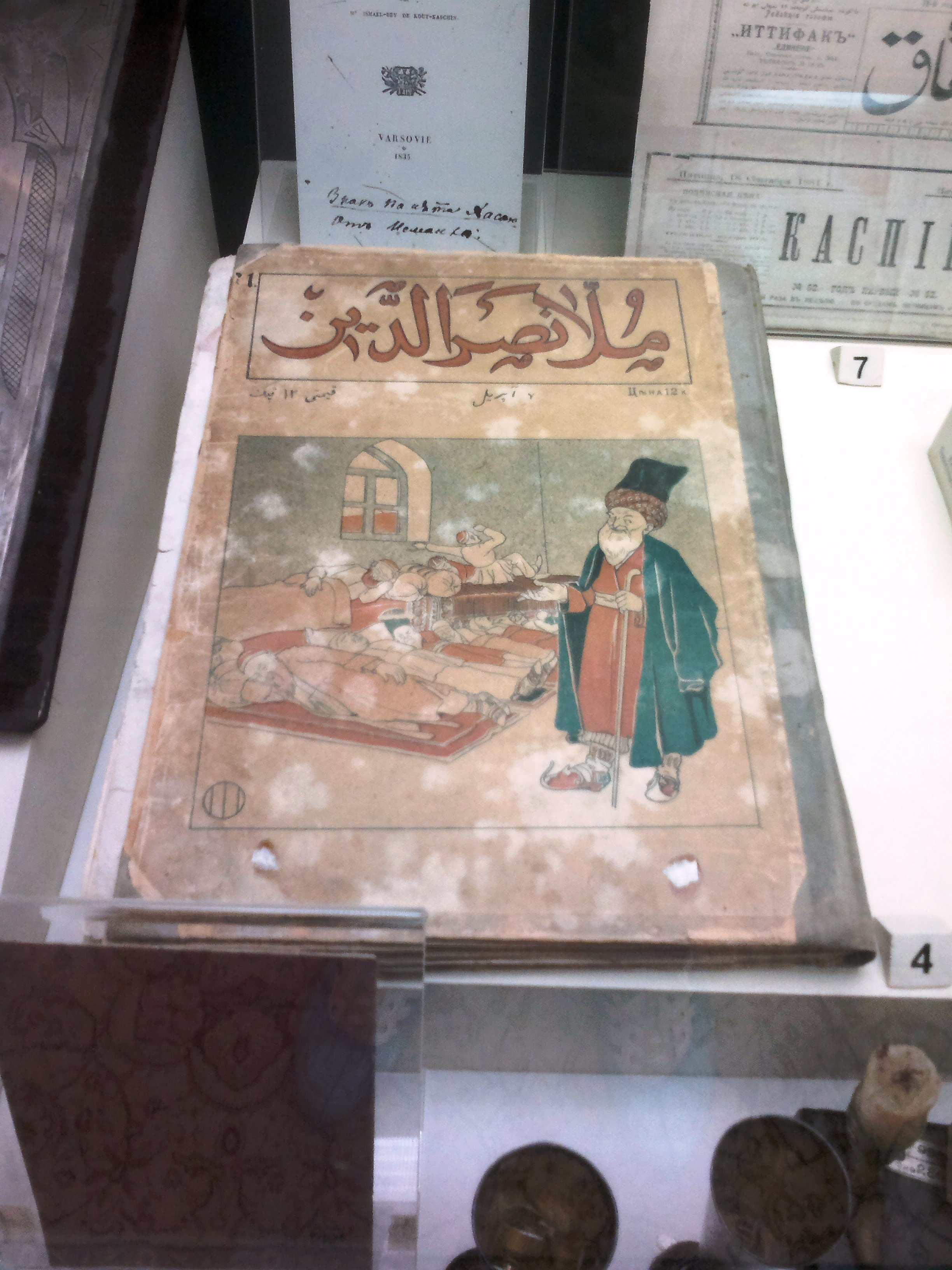 First eddition of "Molla Nasreddin" magazine in Museum of the History of Azerbaijan